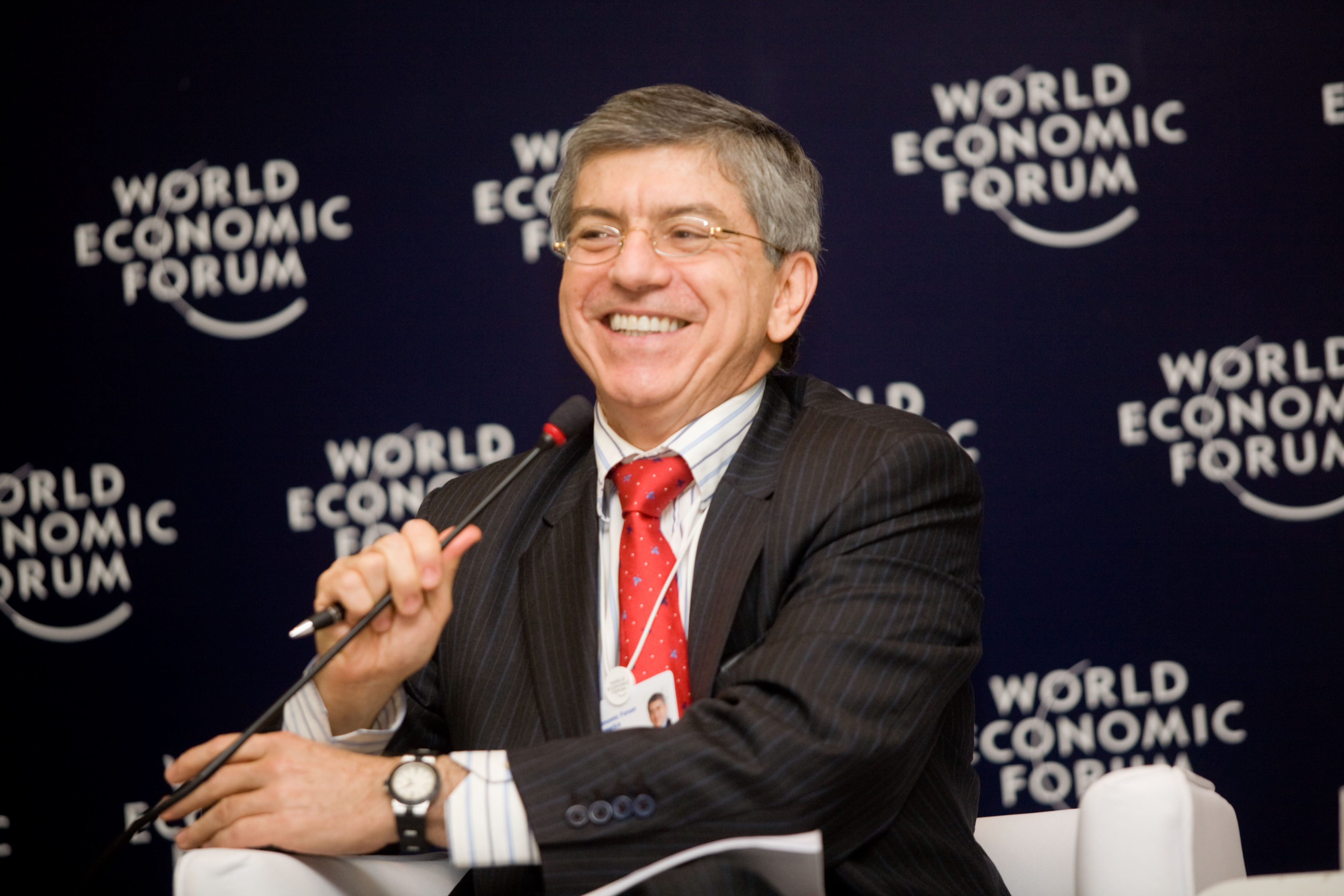 César Gaviria, Colombian politician, speaking at the World Economic Forum on Latin America 2009 in Rio de Janeiro, Brazil.